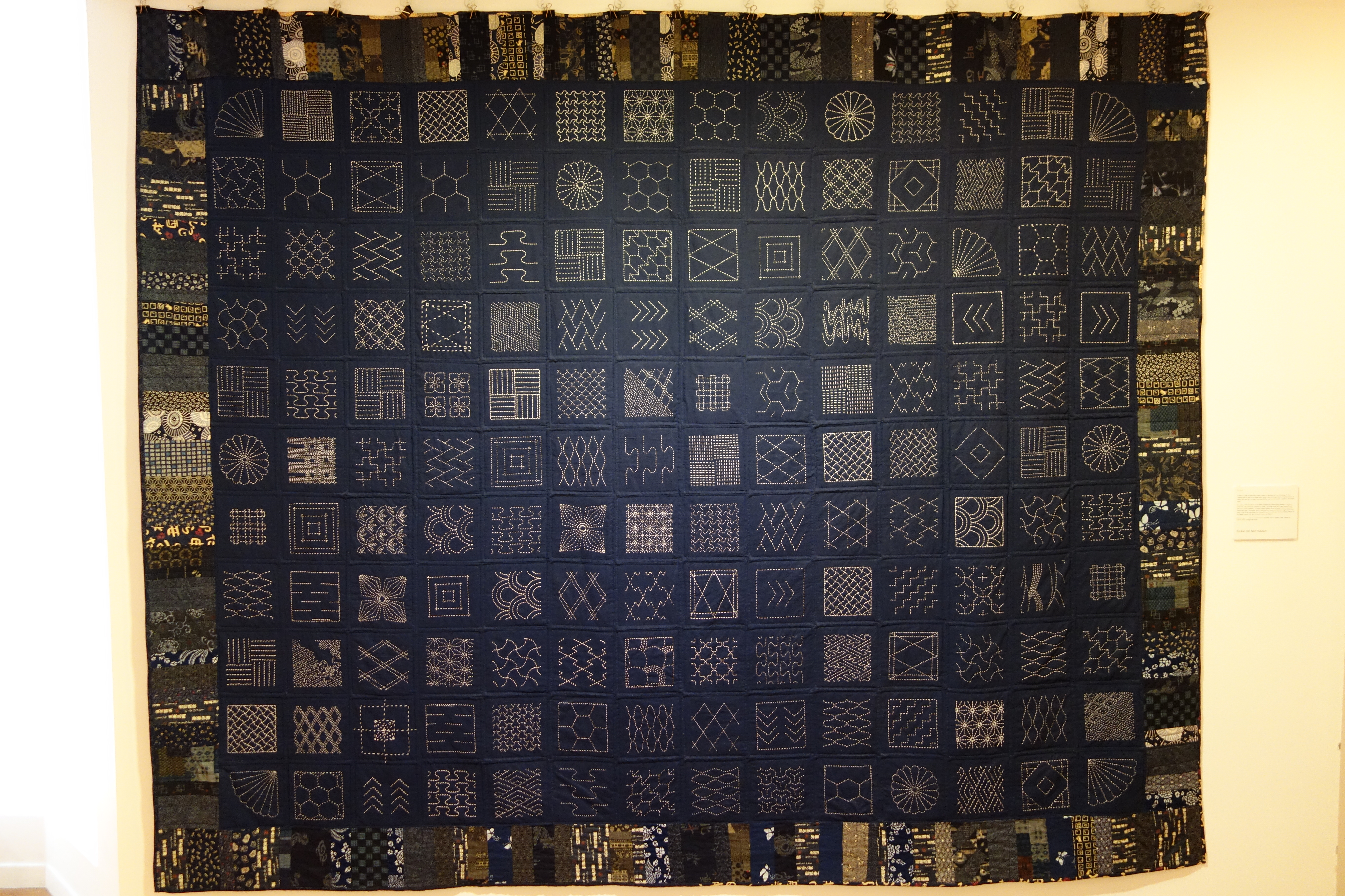 Exhibit in the Textile Museum of Canada, 55 Centre Avenue, Toronto, Ontario, Canada.